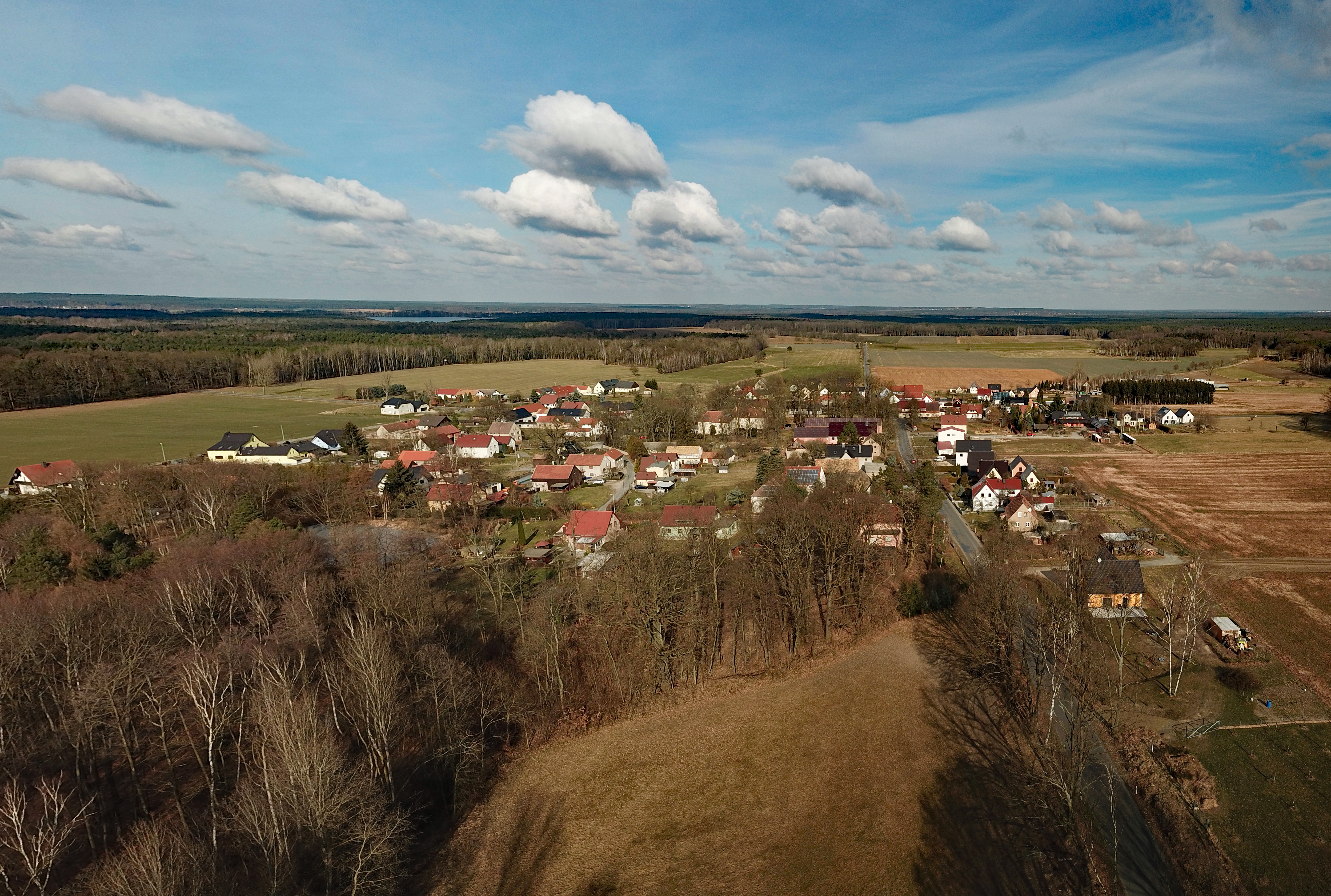 Piskowitz (Nebelschütz, Saxony, Germany) Hornjoserbsce: Powětrowy wobraz Pěskec